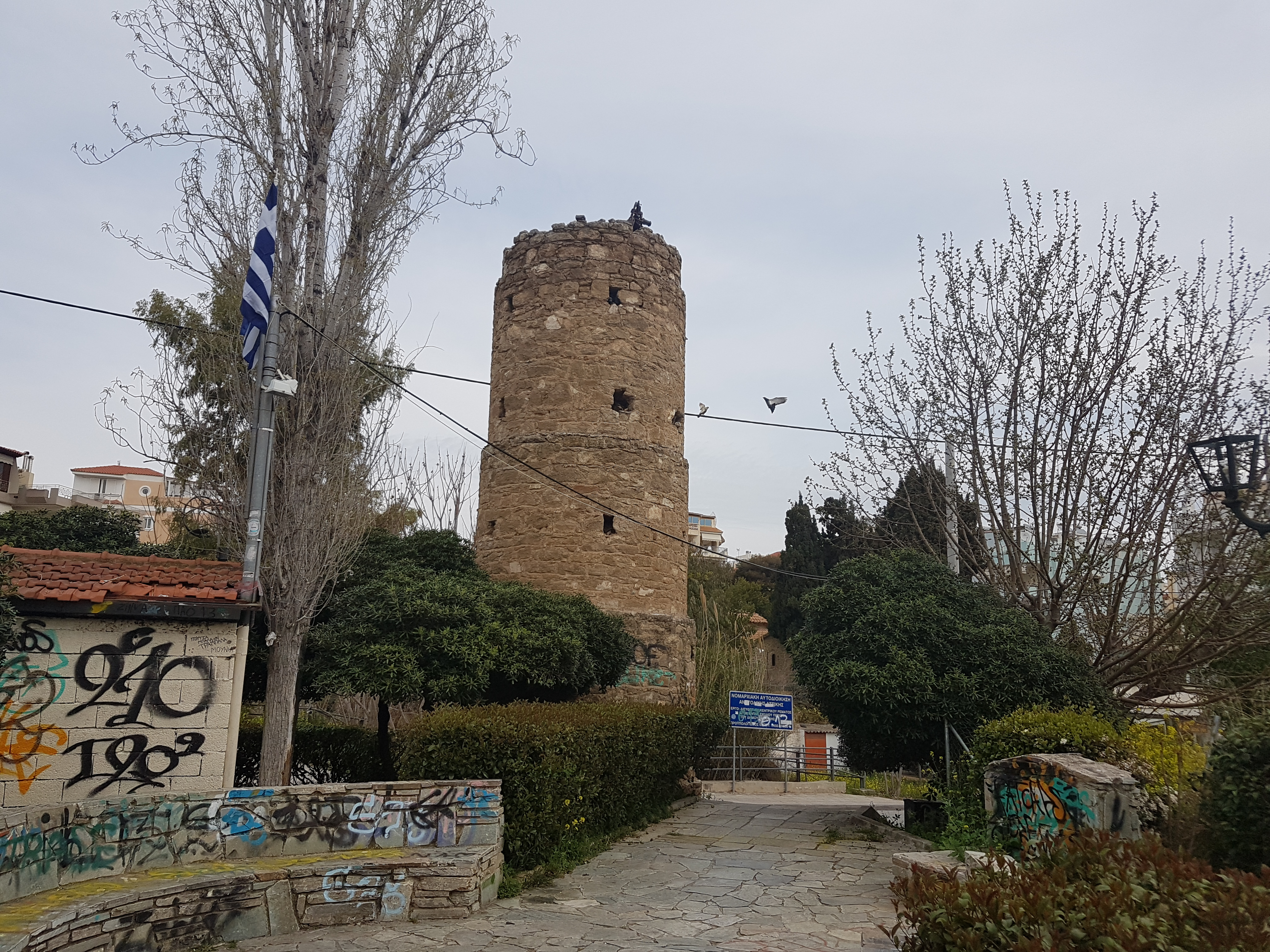 Watermill in Palllini, Attiki, Greece, built when the area was called Harvati, part of the buildings constructed by the French diplomat Alexandre de Roujoux